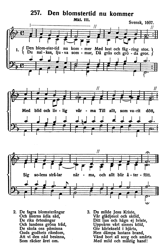 Musical notation and lyrics of "Den blomstertid nu kommer"